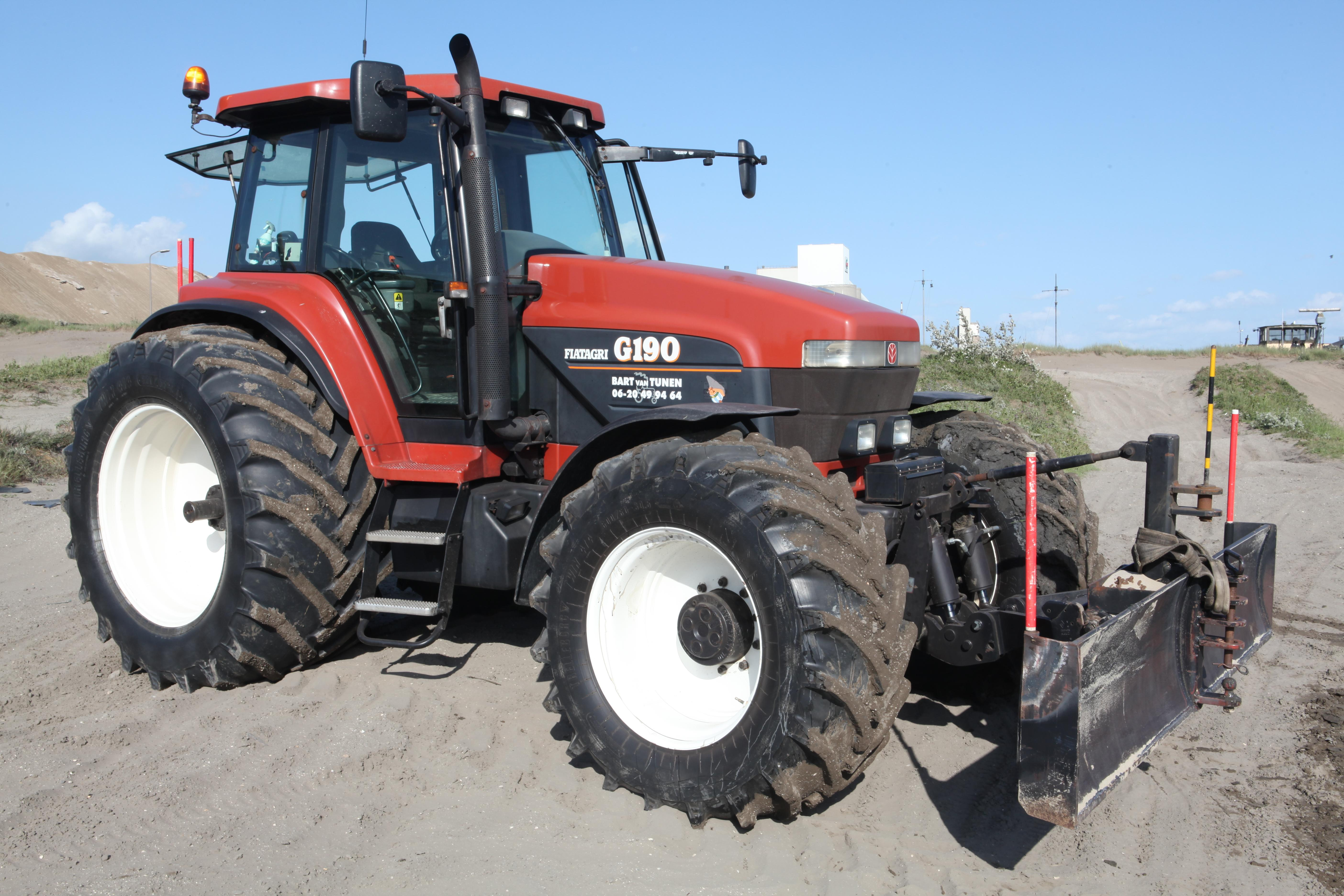 Fiatagri G 190 tractor, Bart Van Tunen Machineverhuur